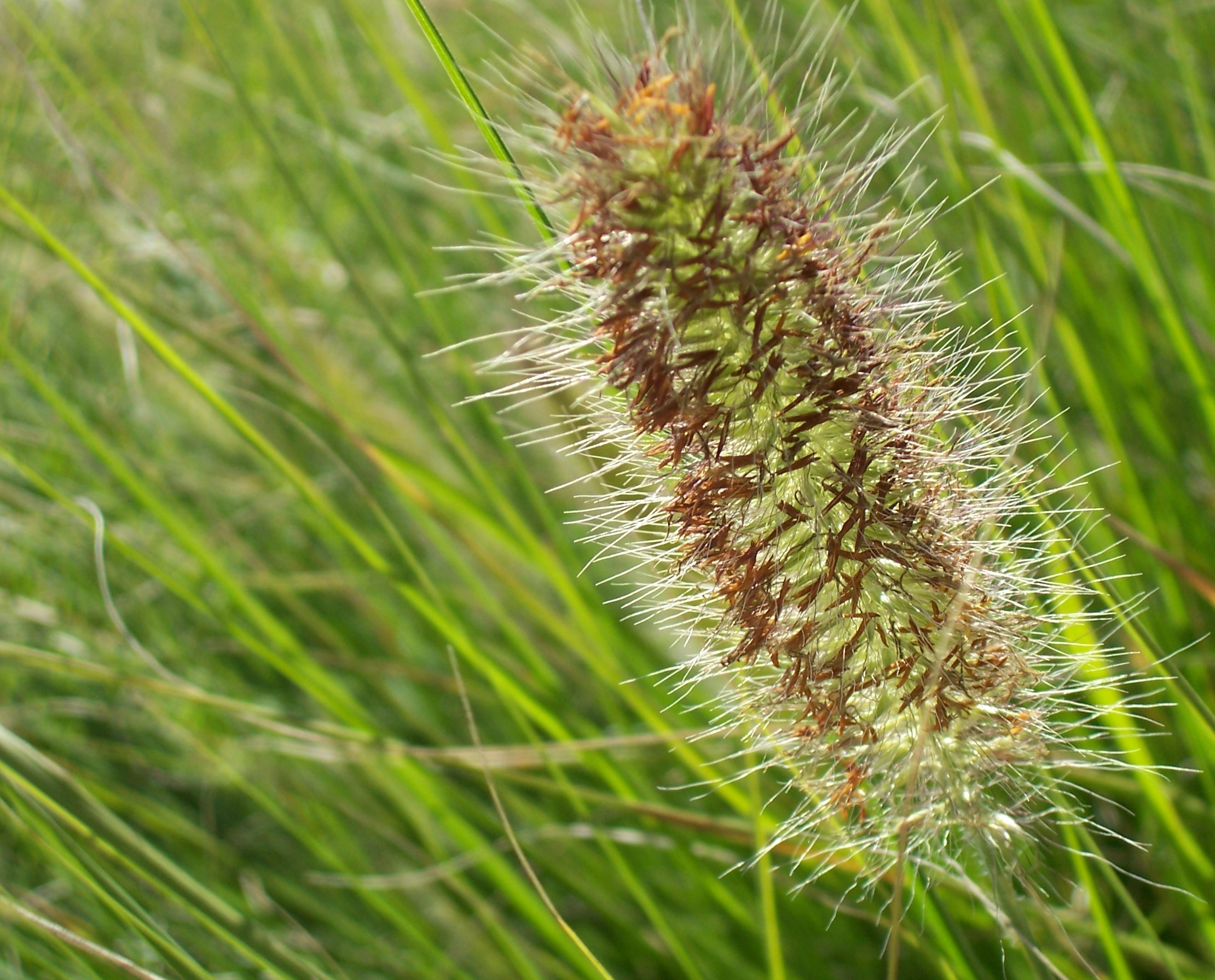 Fountain grass (Pennisetum setaceum) flowers in Waterloo, Ontario.